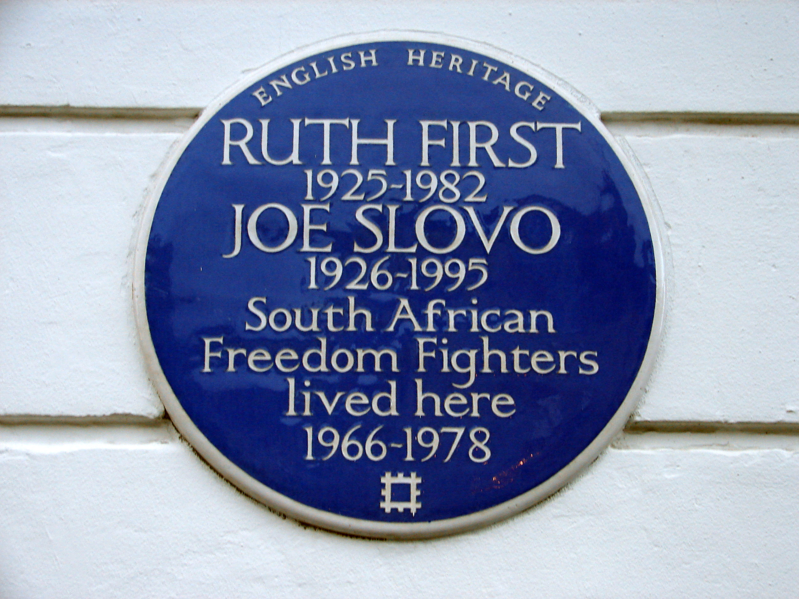 Ruth First and Joe Slovo